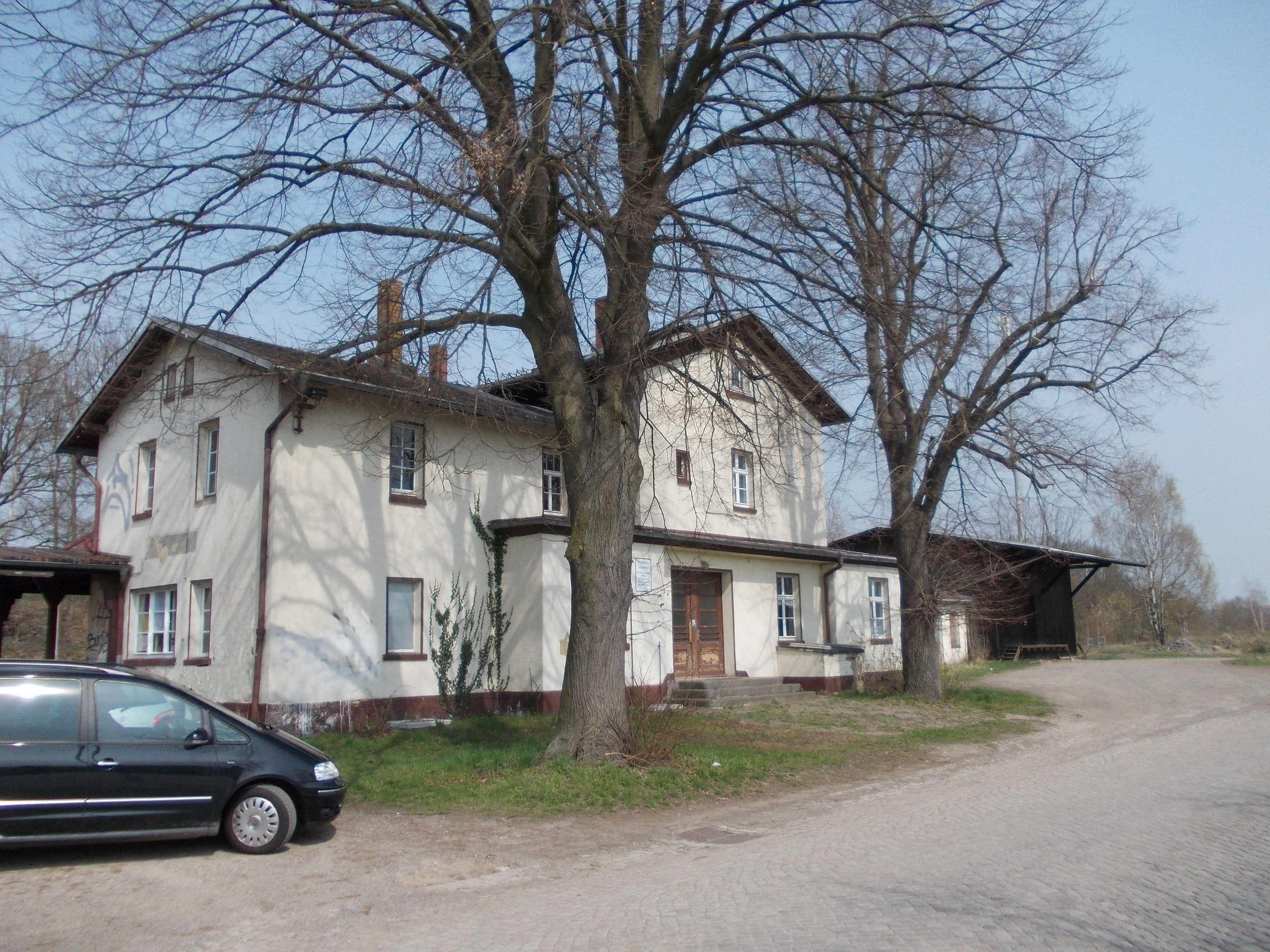 Tanndorf train station (Colditz, Leipzig district, Saxony)